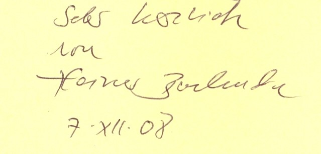 autograph from Heiner Boehncke (German writer)